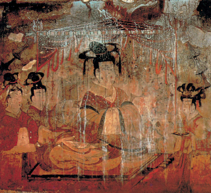 Mural Art in Anak Tomb No. 3. Painting in Anak Tomb No. 3, the 67th national treasure of Korea.